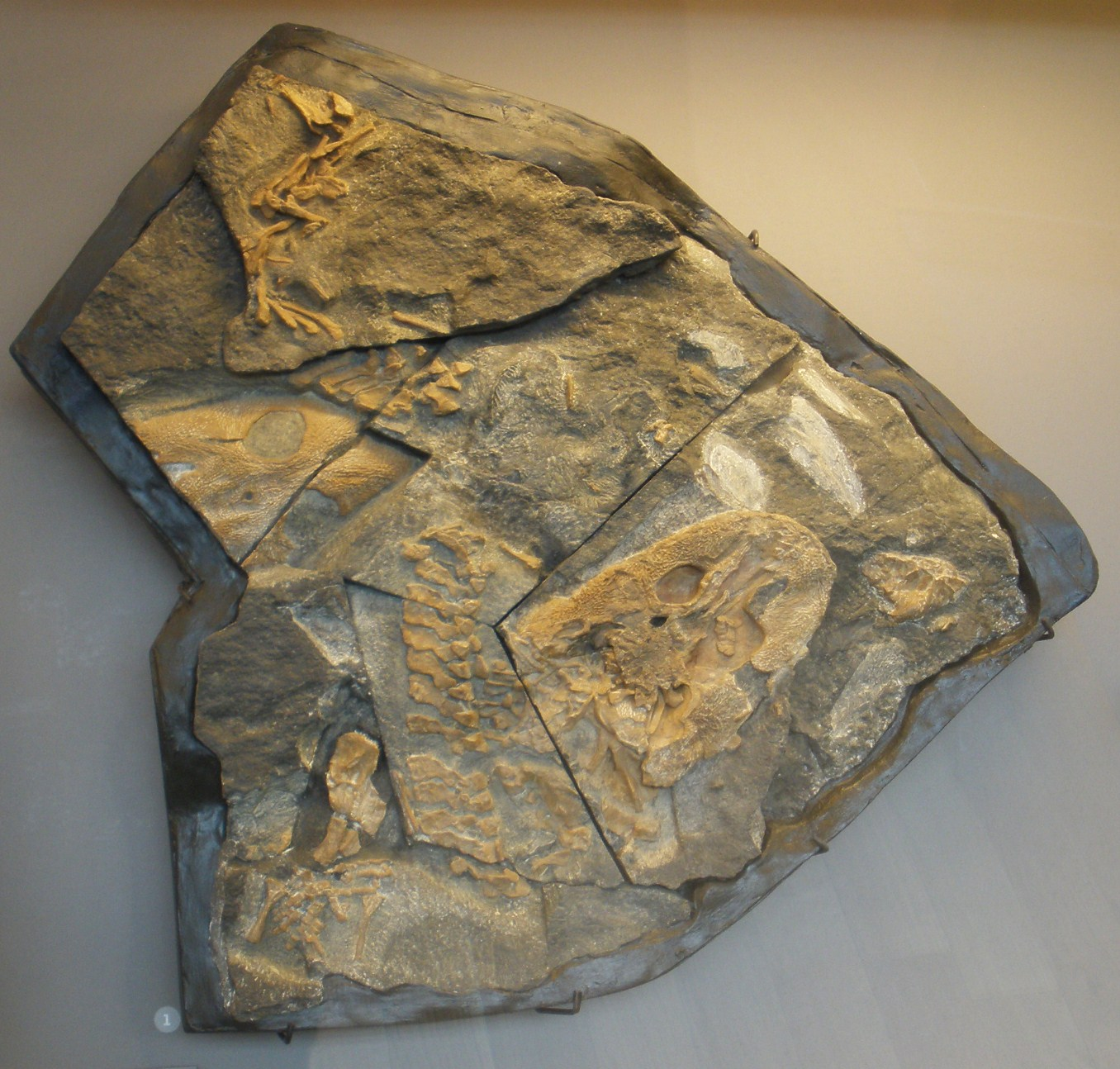 Fossil of Acanthostega gunnari, an extinct amphibian Took the photo at Musee De L'Histoire Naturelle Brussels